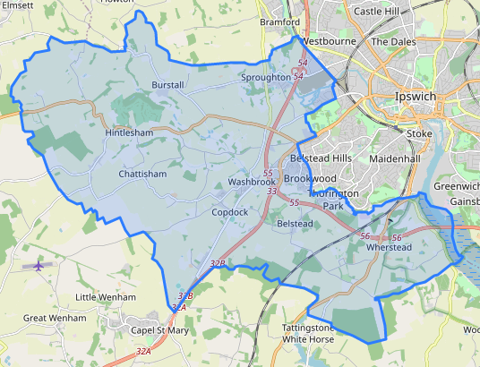 Open Street Map with area shaded blue for Belstead Brook Electoral Division, Suffolk This map of South East Ipswich was created from OpenStreetMap project data, collected by the community. This map may be incomplete, and may contain errors. Don't rely solely on it for navigation.